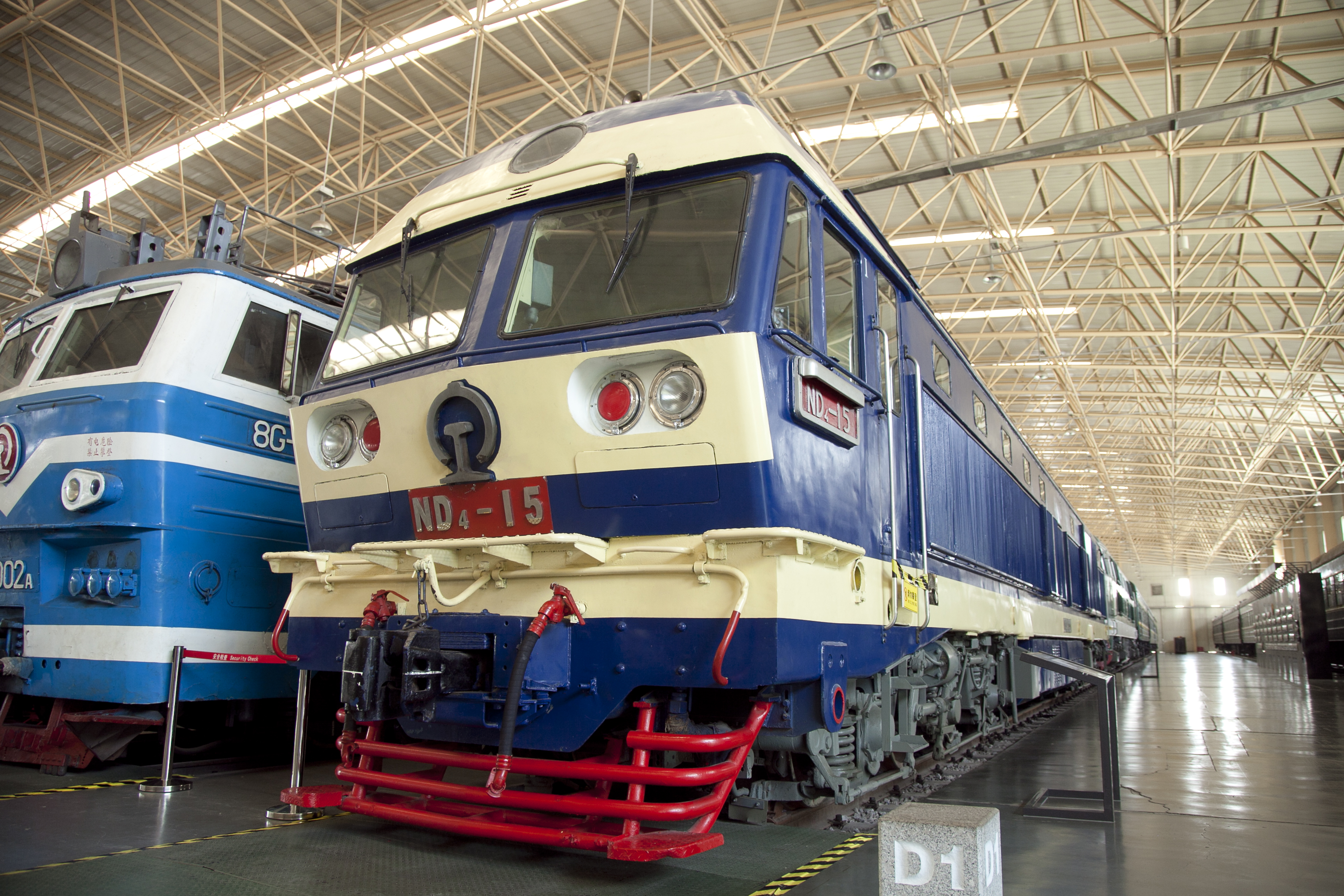 ND4 locomotive at China Railway Museum